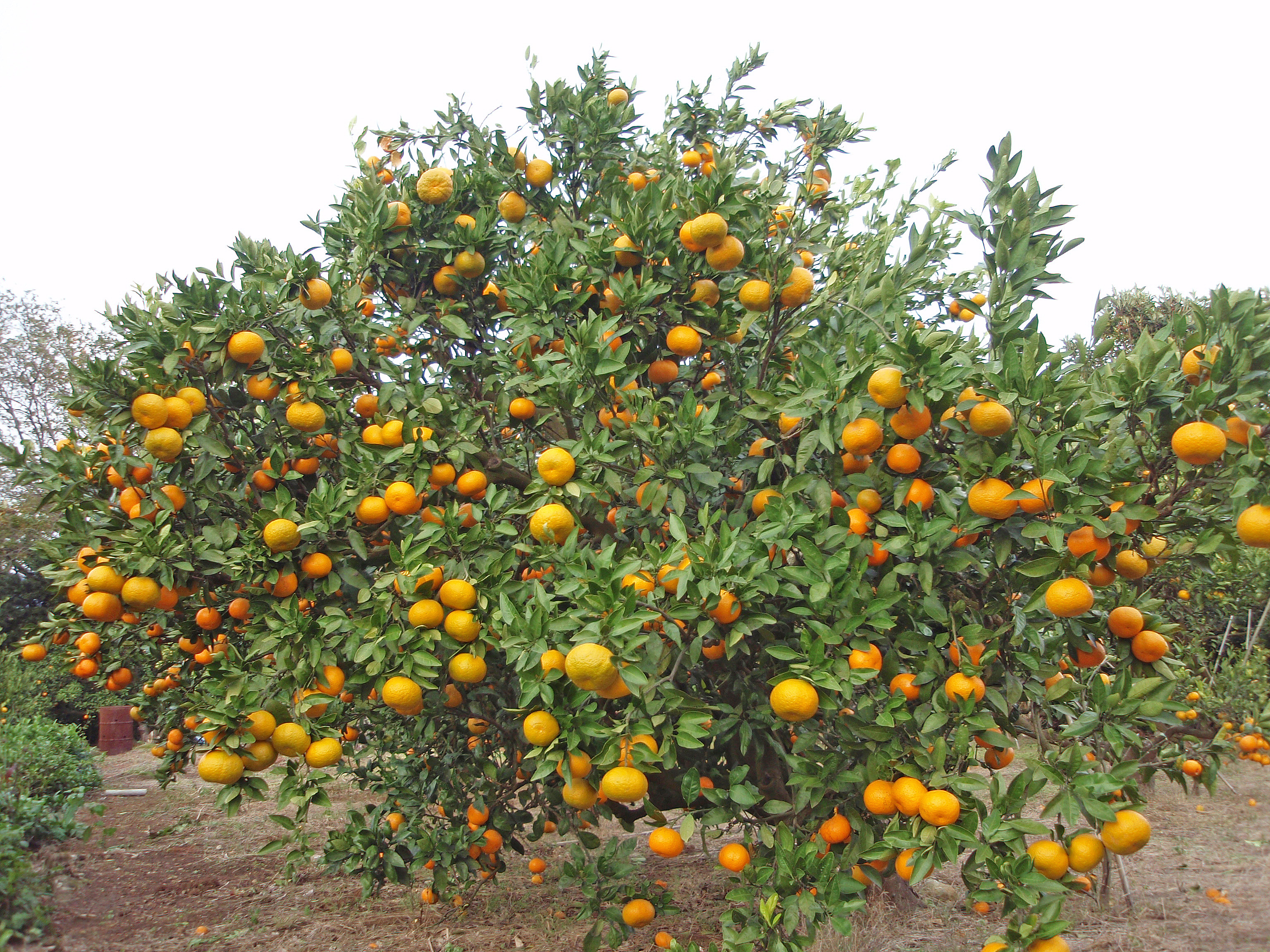 Citrus unshiu tree in Numzu, Shizuoka Prefecture, Japan.